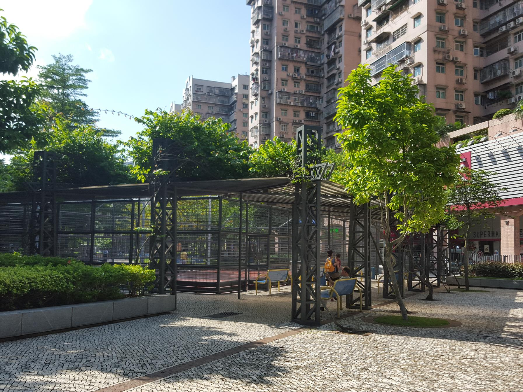 Areia Preta Park